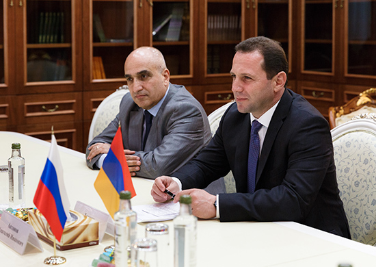 заместителем Министра обороны Республики Армения Давидом Тонояном